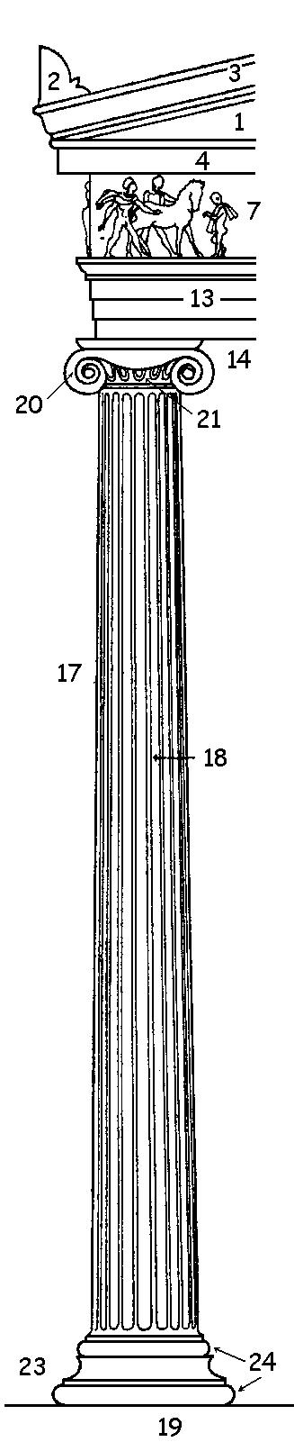 Architectural elements of the Ionic order.